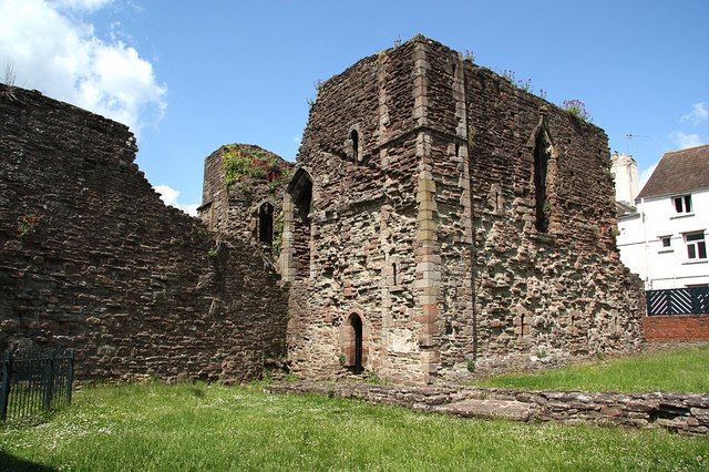 Great Tower Ruin of the Great Tower at Monmouth Castle